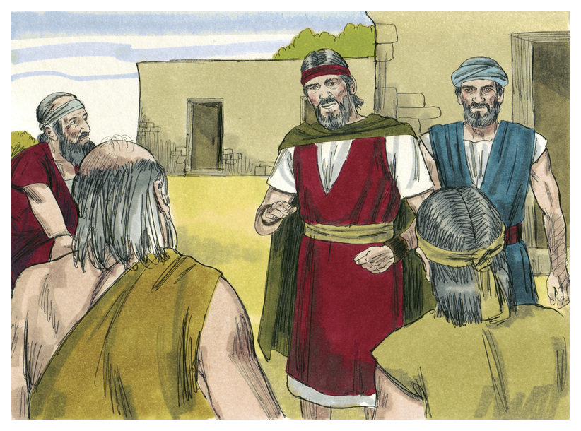 Biblical illustration of Book of Exodus Chapter 6